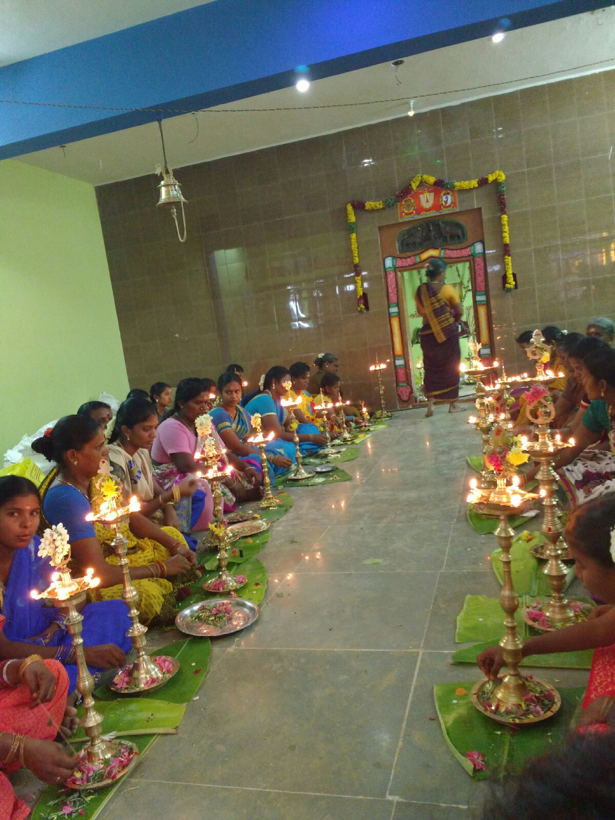 Thiruvilakku Pooja of surayiamman